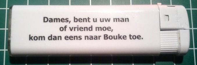 Ladies, getting bored of husband or friend, do come to Bouke